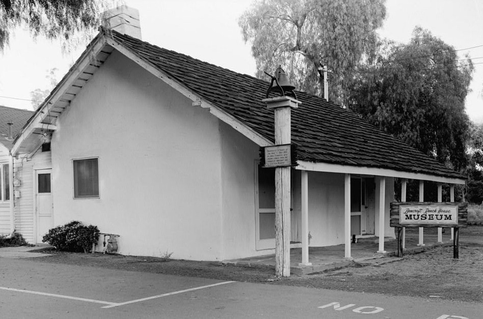 Hubert H. Bancroft Ranch House — b Built in 1856 out of timbers salvaged from a shipwreck in San Diego Bay. Located at 9050 Memory Lane, Spring Valley, San Diego County, Southern California. The property also contains a natural spring, named El aguaje de San Jorge (St. George's Spring) by the Spanish, after which the community of Spring Valley is named. Historic American Buildings Survey—HABS image (cropped).